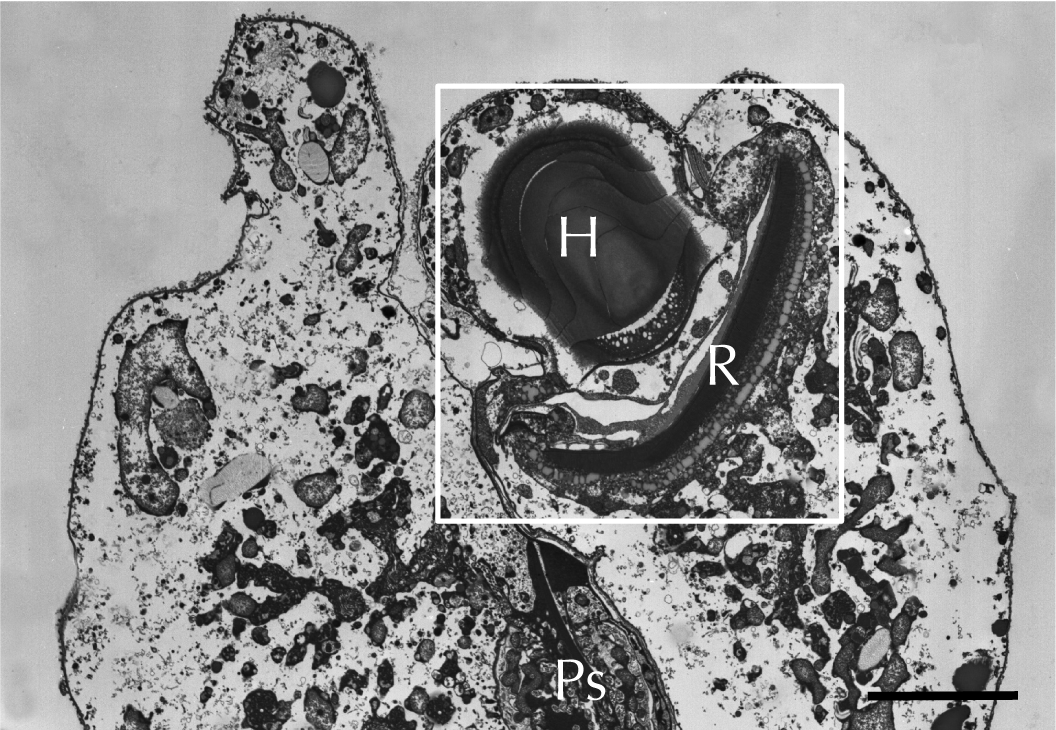 Electron micrograph of warnowiid oscelloid from Erythropsidinium, , highlighted in a white box. Positions of the hyalosome (H) and the retinal body (R) are indicated. A portion of the piston (Ps) is also visible. Lightly edited to remove panel label from Figure 1B of Hayakawa S, Takaku Y, Hwang JS, Horiguchi T, Suga H, et al. (2015) Function and Evolutionary Origin of Unicellular Camera-Type Eye Structure. PLoS ONE 10(3): e0118415.